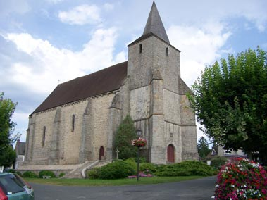 Church of Azerables